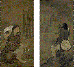 Yan Hui Hanging role